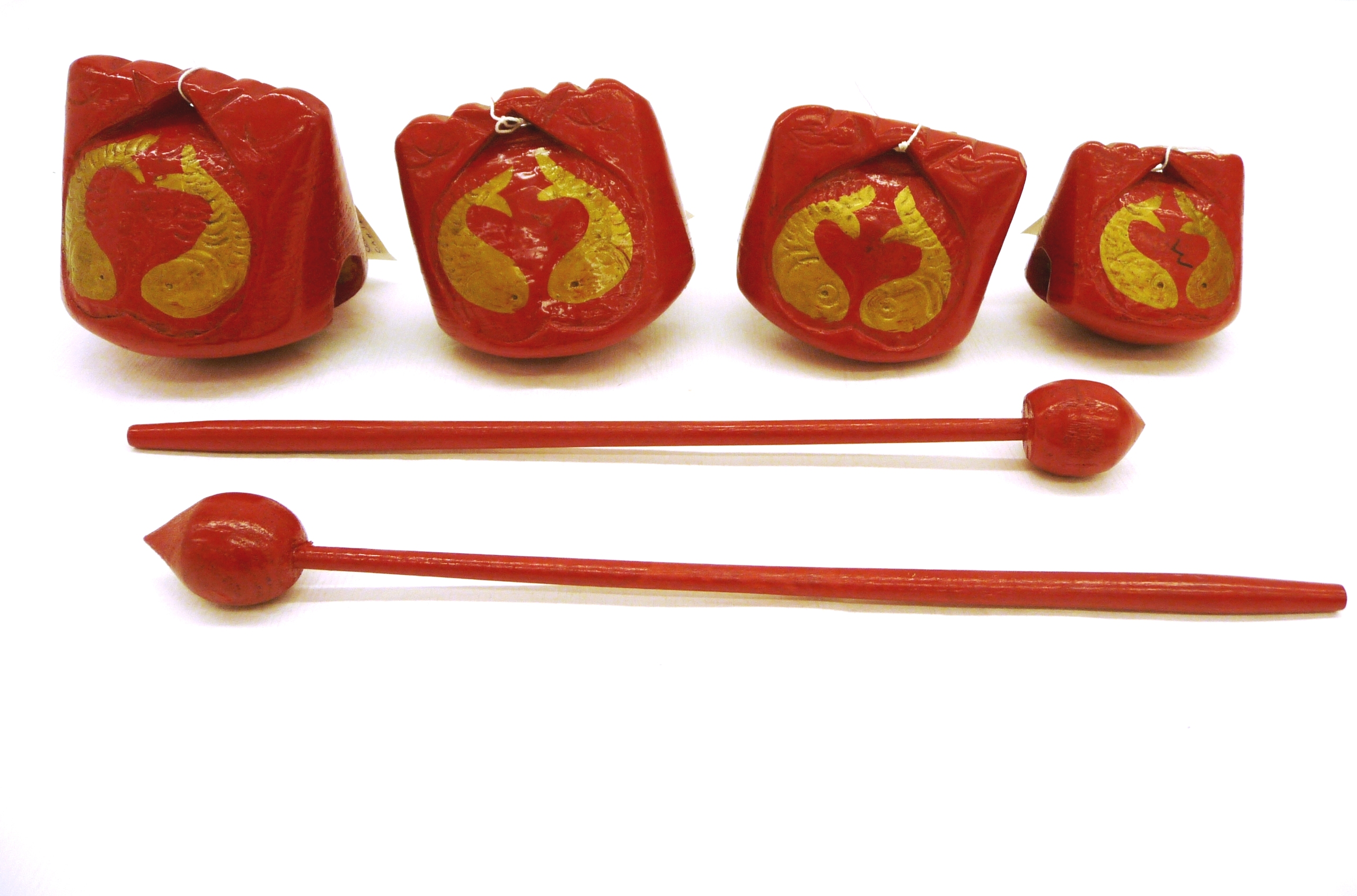 This is a set of muyus or Chinese wooden slit drums. The sound produced is affected by the instrument’s size, type of wood, and how hollow it is. Today muyus are often used in sets of five. In a Chinese Orchestra they are used to convey a solemn and religious feel to the music. They are also used in battle scenes and played in fast and lively pieces. Object description: This is a set of four wooden slit drums or idiophones. Sound is produced without the use of strings or membranes. A wooden stick with a tear-shaped knob is used to beat against the drum to produce sound. Each drum is shaped like a triangular prism with a slit along the bottom. Heart shapes are carved into both faces with a hole at the point. Four grooves are carved across the top. They are painted red with two gold fish on each side. History: The muyu is also called a ‘wooden fish’ and was first used by Buddhist monks. The fish was a symbol of wakefulness as fish were not thought to sleep. The symbol reminded Buddhist followers to remain awake and concentrate on their prayers. The striking of the muyu provided the rhythm as they chanted their scriptures. Mention of muyus has been found in writings from the Ming dynasty (1368-1644 AD).